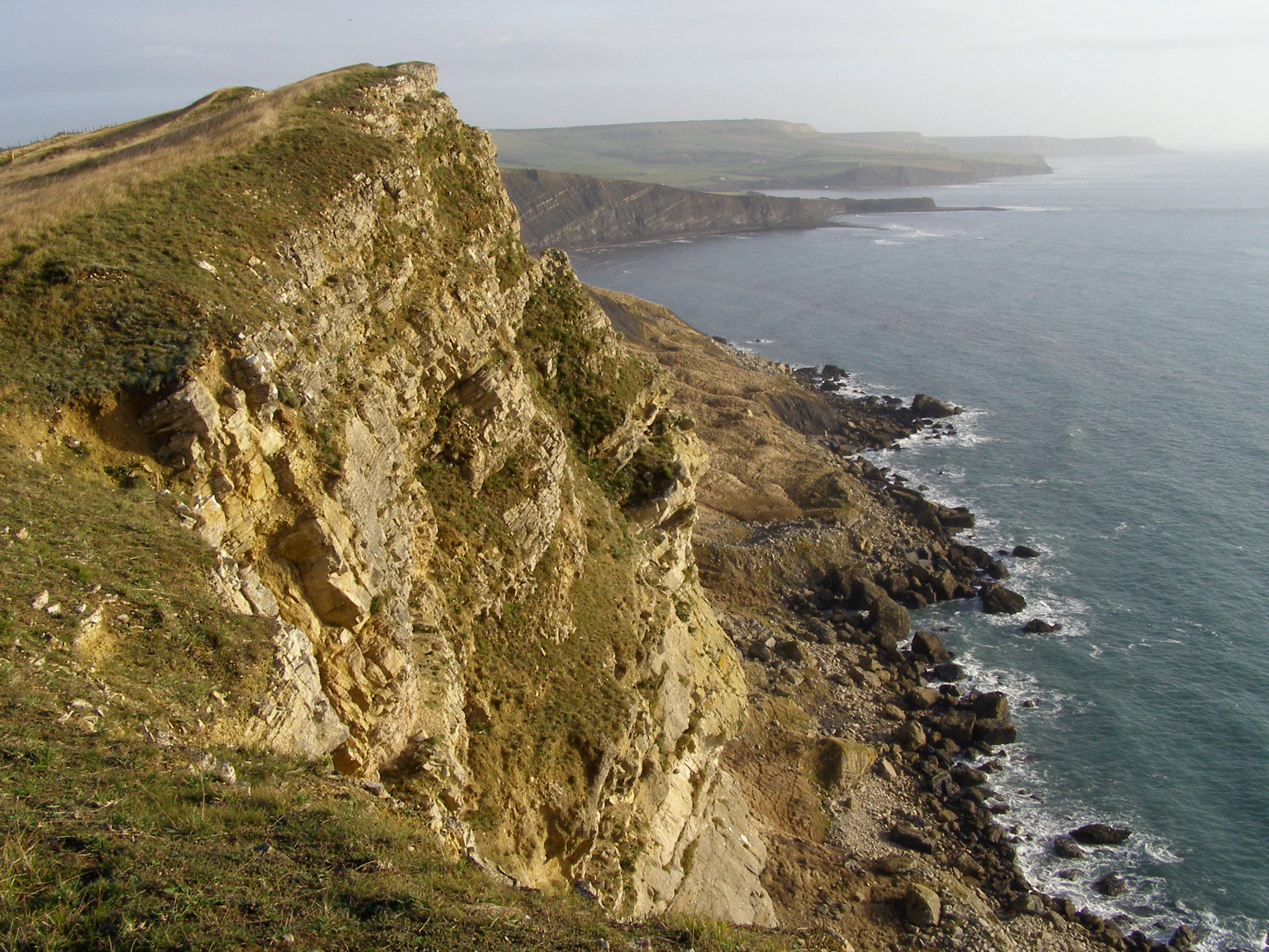 Gad Cliff, near Tyneham on the Isle of Purbeck, Dorset, U.K.